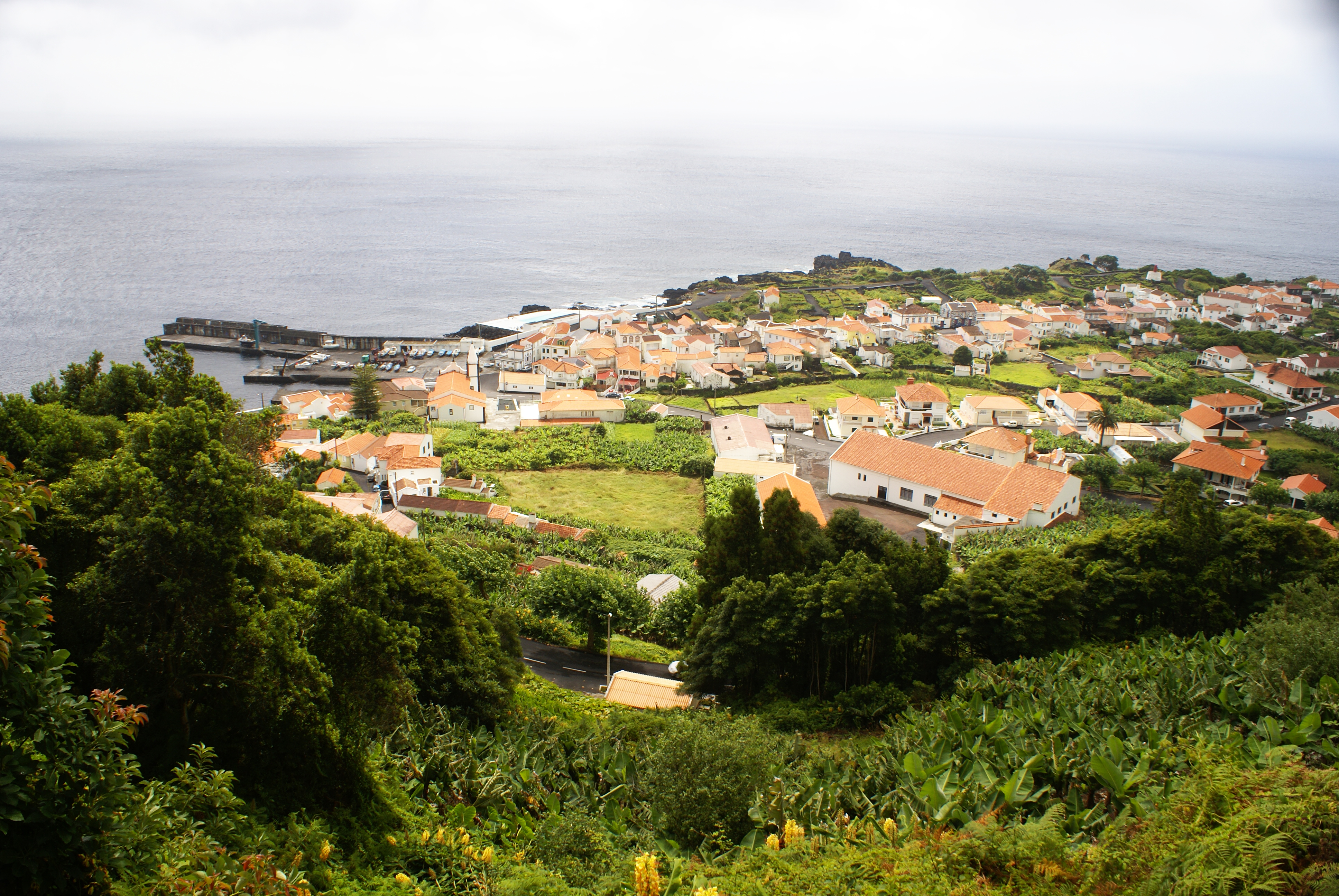 Santa Cruz das Ribeiras, vista parcial, concelho das Lajes do Pico, ilha do Pico, Açores, Portugal